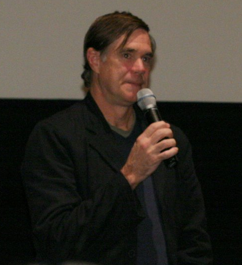 US director Gus van Sant at a screening of his movie Paranoid Park in December 2007